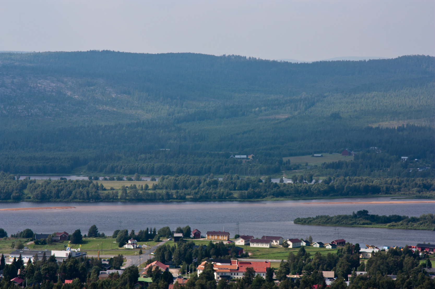 Ylitornio seen from Ainiovaara hill.